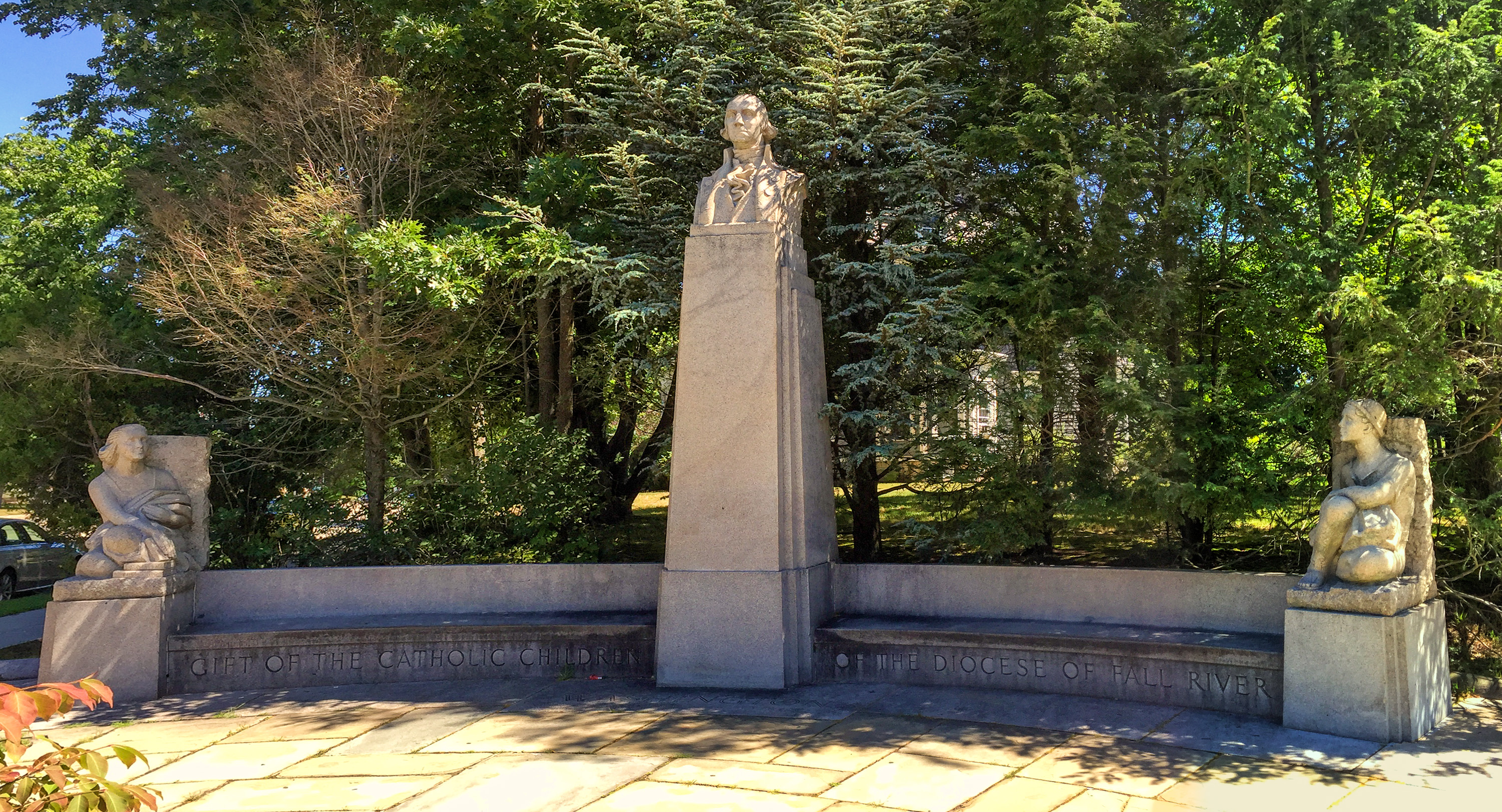 George Washington Monument, sculpted by Frederick Warren Allen of Deer Island granite. 1942. At New Boston Road and Highland Avenue, Fall River Massachusetts.